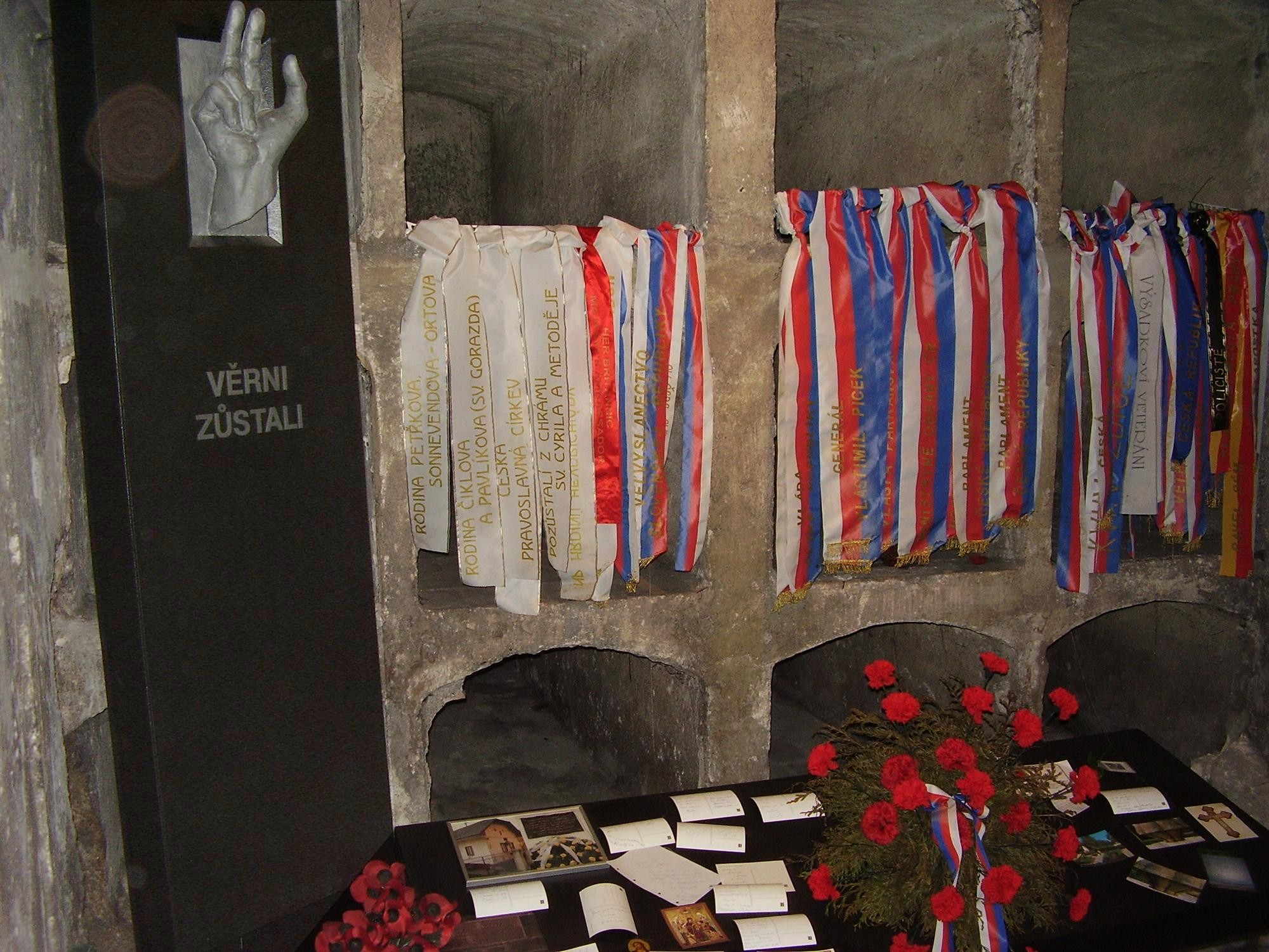 Memorial to the paratroopers who assassinated Reinhard Heydrich in the Church of Saint Cyril and Methodius on Resslova street in Prague